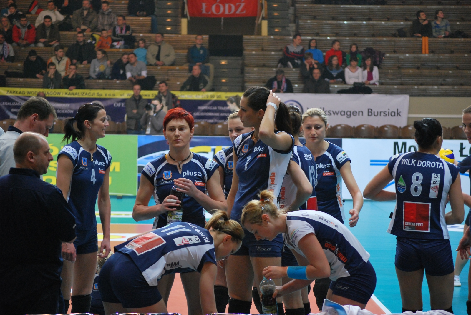 KPSK Stal Mielec, women's volleyball club